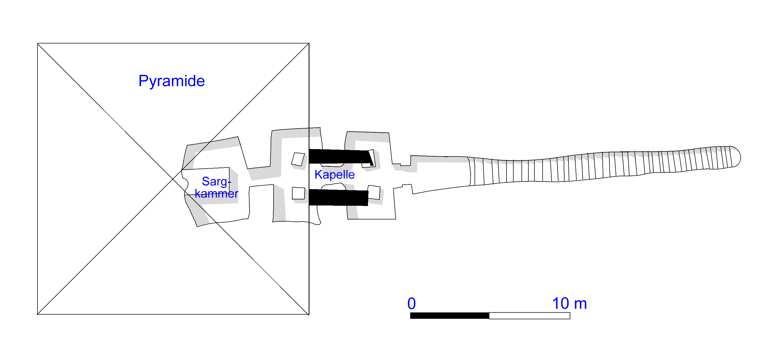 plan of Pyramid N7 of Arqamani at Meroe